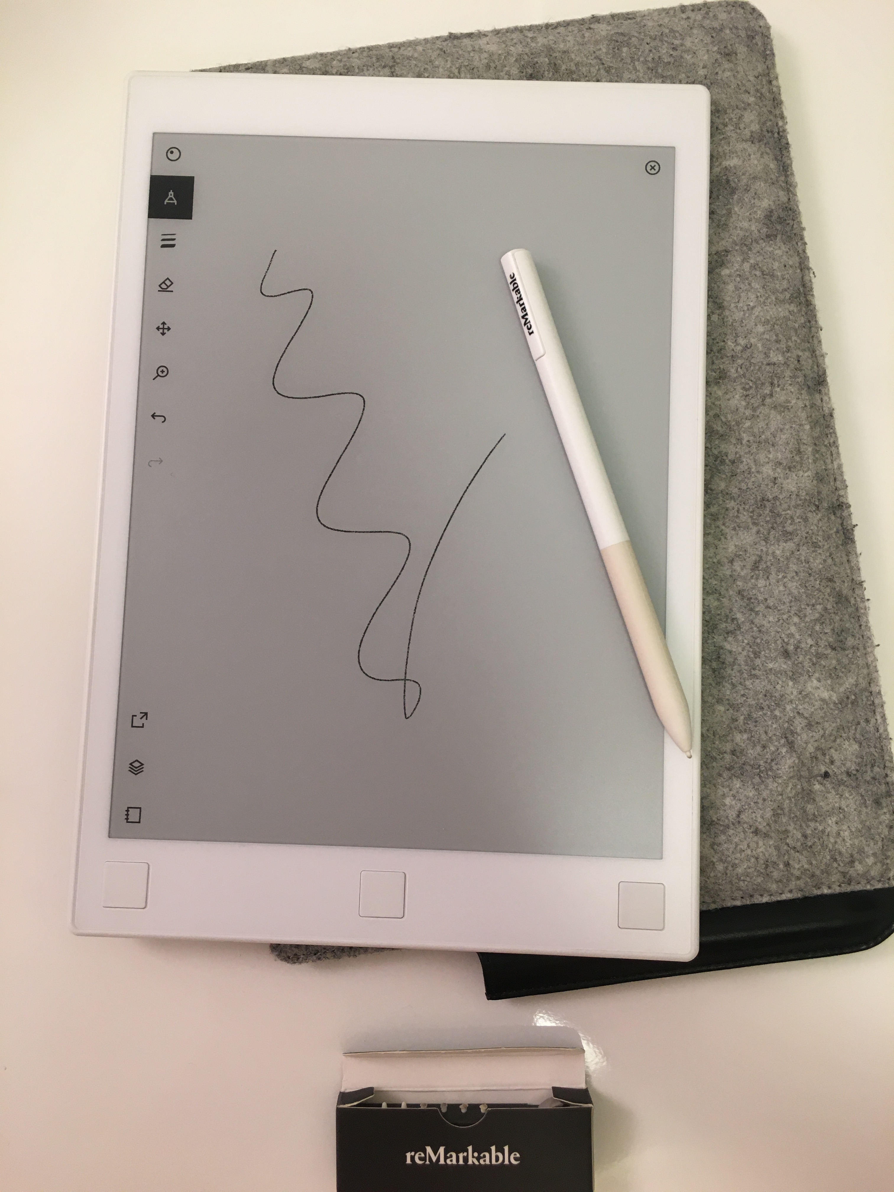 Sketch drawing on the reMarkable drawn with the passive pen. The picture also contains the original sleeve and spare tips, some worn and some new.